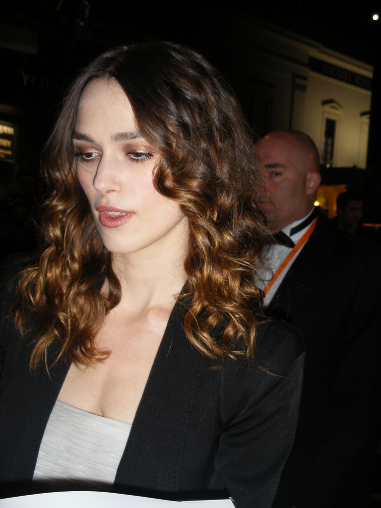 Keira Knightley at BAFTAs 2008